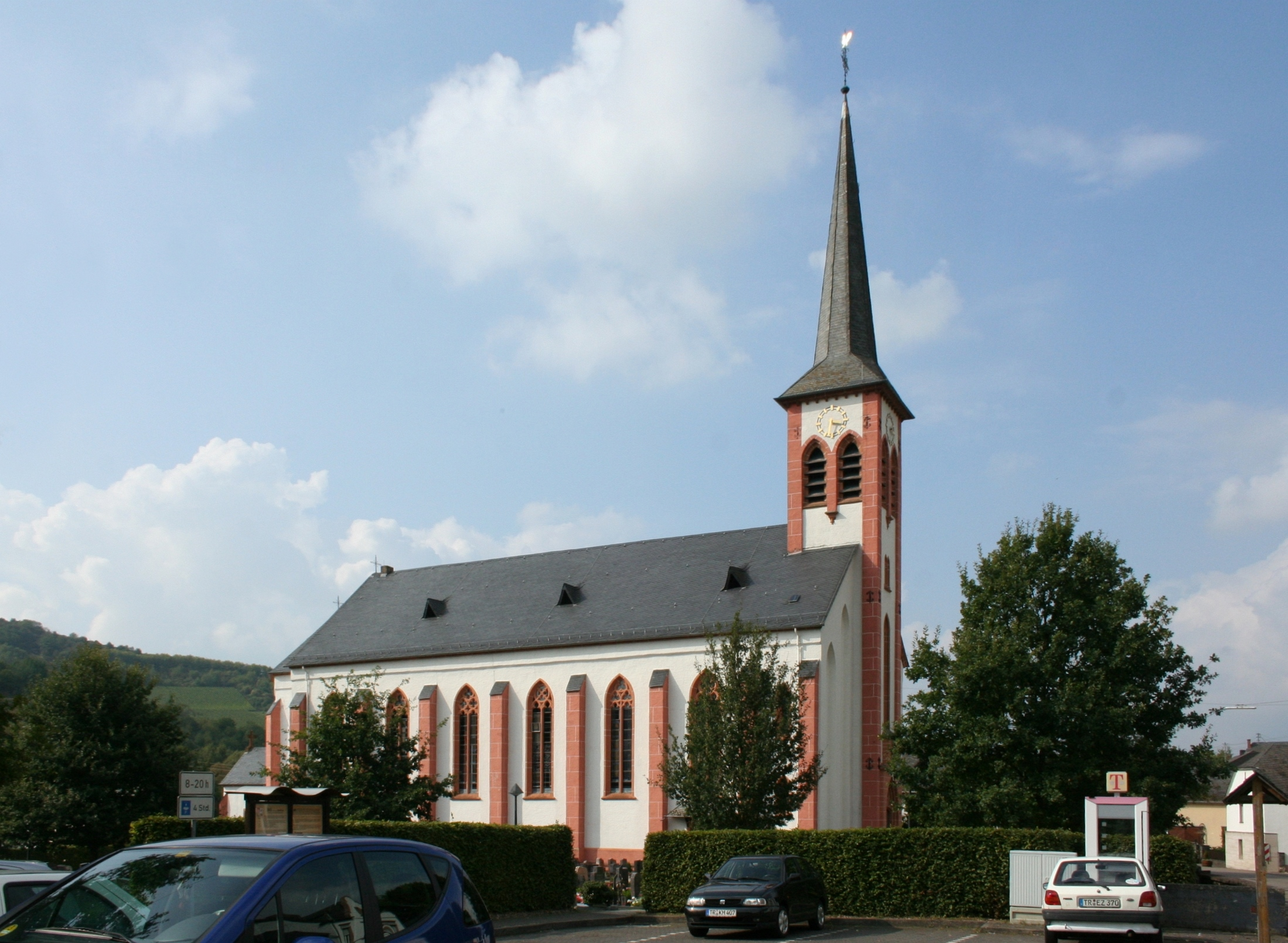 Church at Fell, Germany